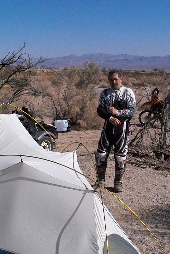 Alan L. Davis, professor at Univ. Utah, camping and biking in the Nevada desert at Thanksgiving, 2007.